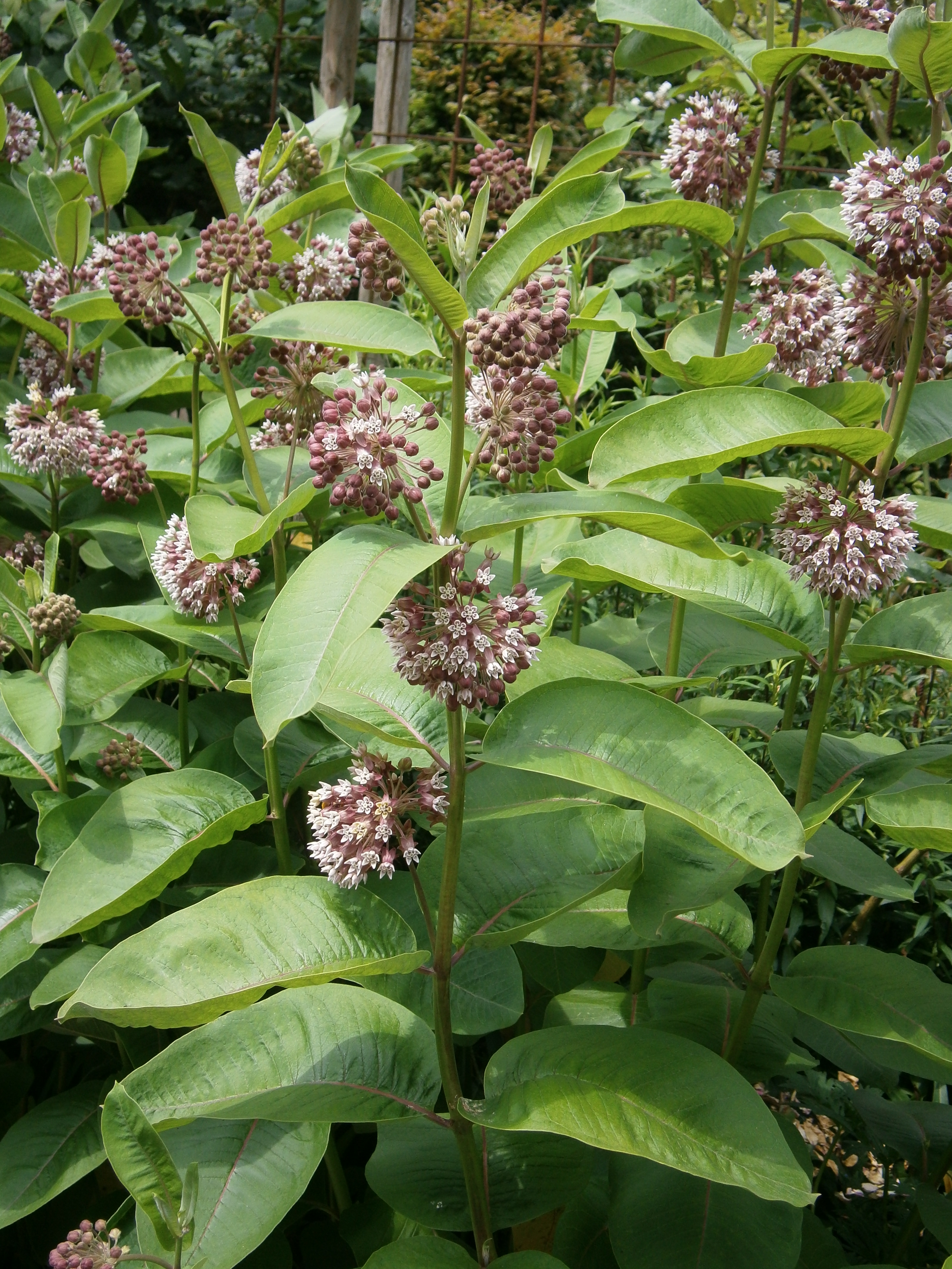 Asclepias syriaca